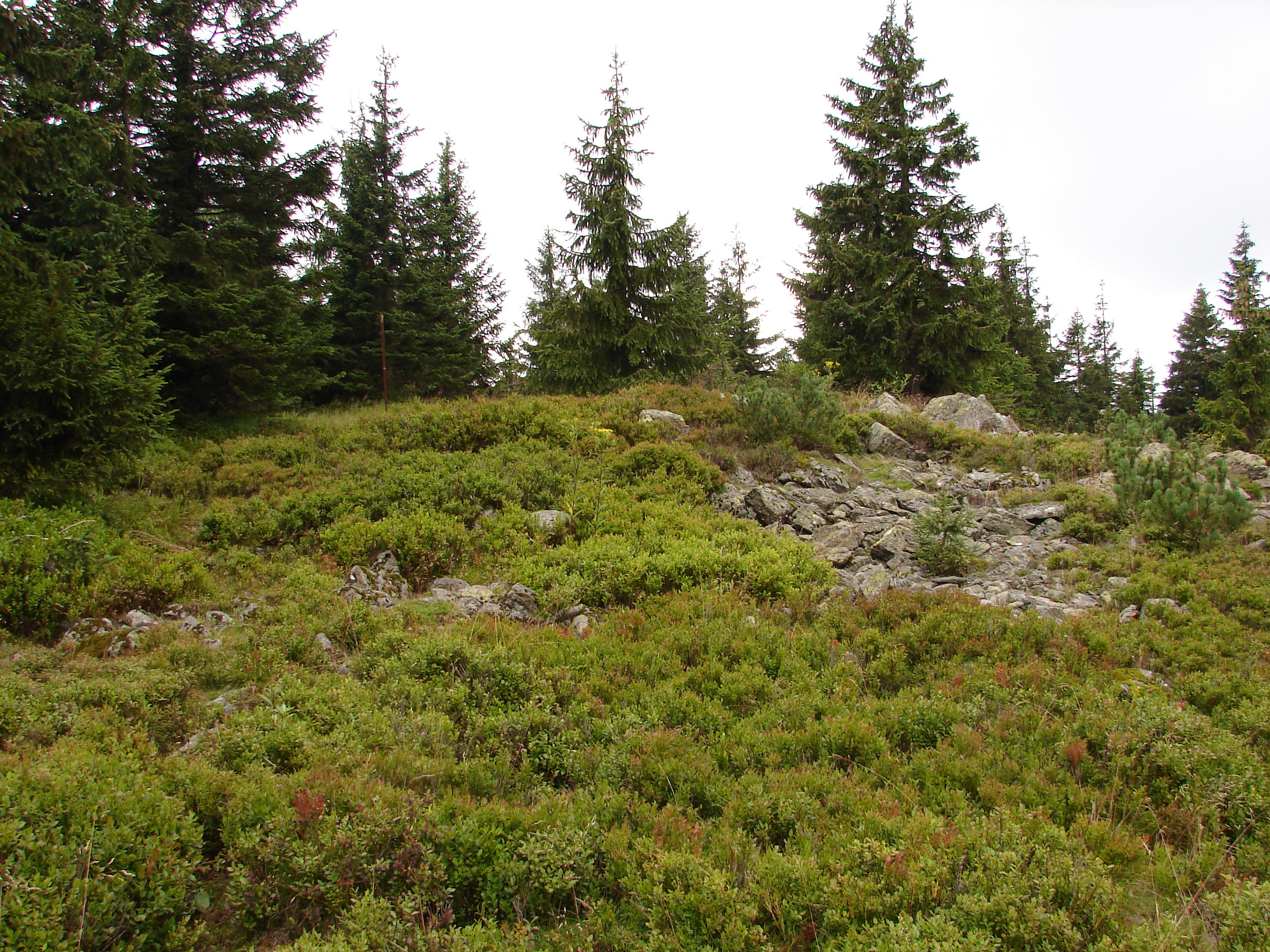 Summit of Plešivec in the Giant Mountains (Krkonoše)